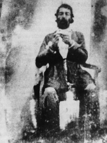 Malek Qasem Mirza, self-portrait seems to be the only existing photographic witness to the one Persian daguerreotype that survived